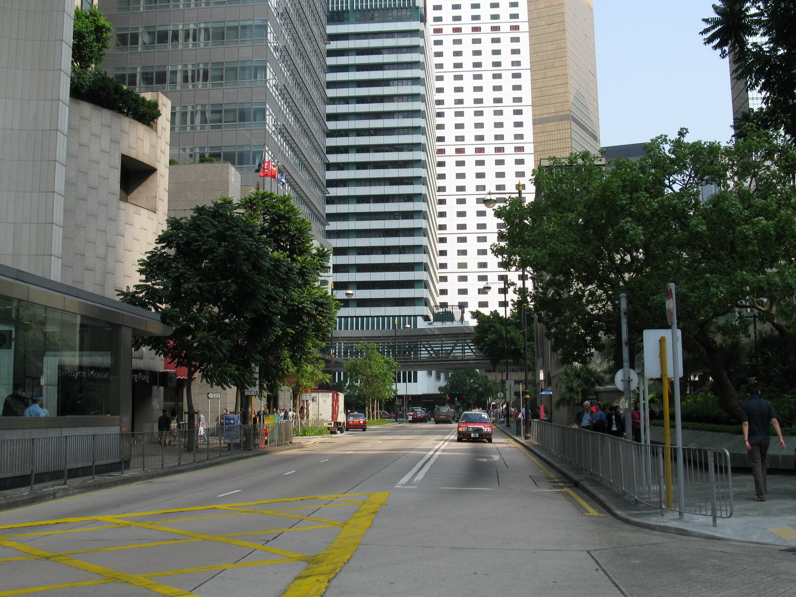 遮打道 美利道方向 Chater Road, view towards Murray Road